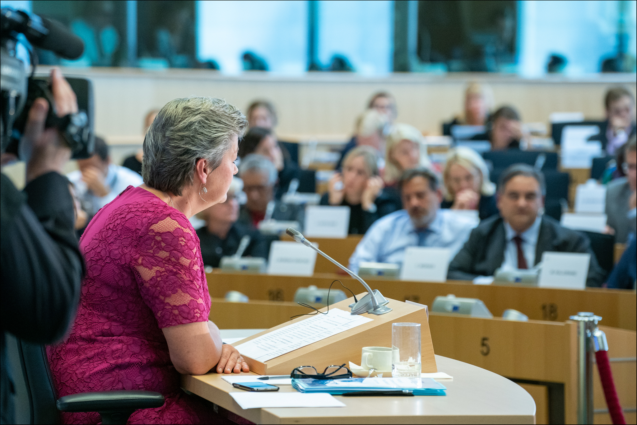 Before the European Parliament can vote the new European Commission led by Ursula von der Leyen into office, parliamentary committees will assess the suitability of commissioners-designate. On 23-26 May, more than 200,000,000 people in 28 EU countries went to the polls to elect members of the European Parliament, giving them a strong democratic mandate, including voting into office the new European Commission and examining the competencies and abilities of its commissioners-designate. Elected members of the European Parliament will also listen to their ideas and will assess their willingness to take concrete actions on the issues that Europeans care about. Each candidate commissioner is invited for a live-streamed, three-hour hearing in front of the committee or committees responsible for their proposed portfolio. The hearings will take place between Monday 30 September and Tuesday 8 October. This photo is free to use under Creative Commons license CC-BY-4.0 and must be credited: "CC-BY-4.0: © European Union 2019 – Source: EP". No model release form if applicable. For bigger HR files please contact: webcom-flickr(AT)